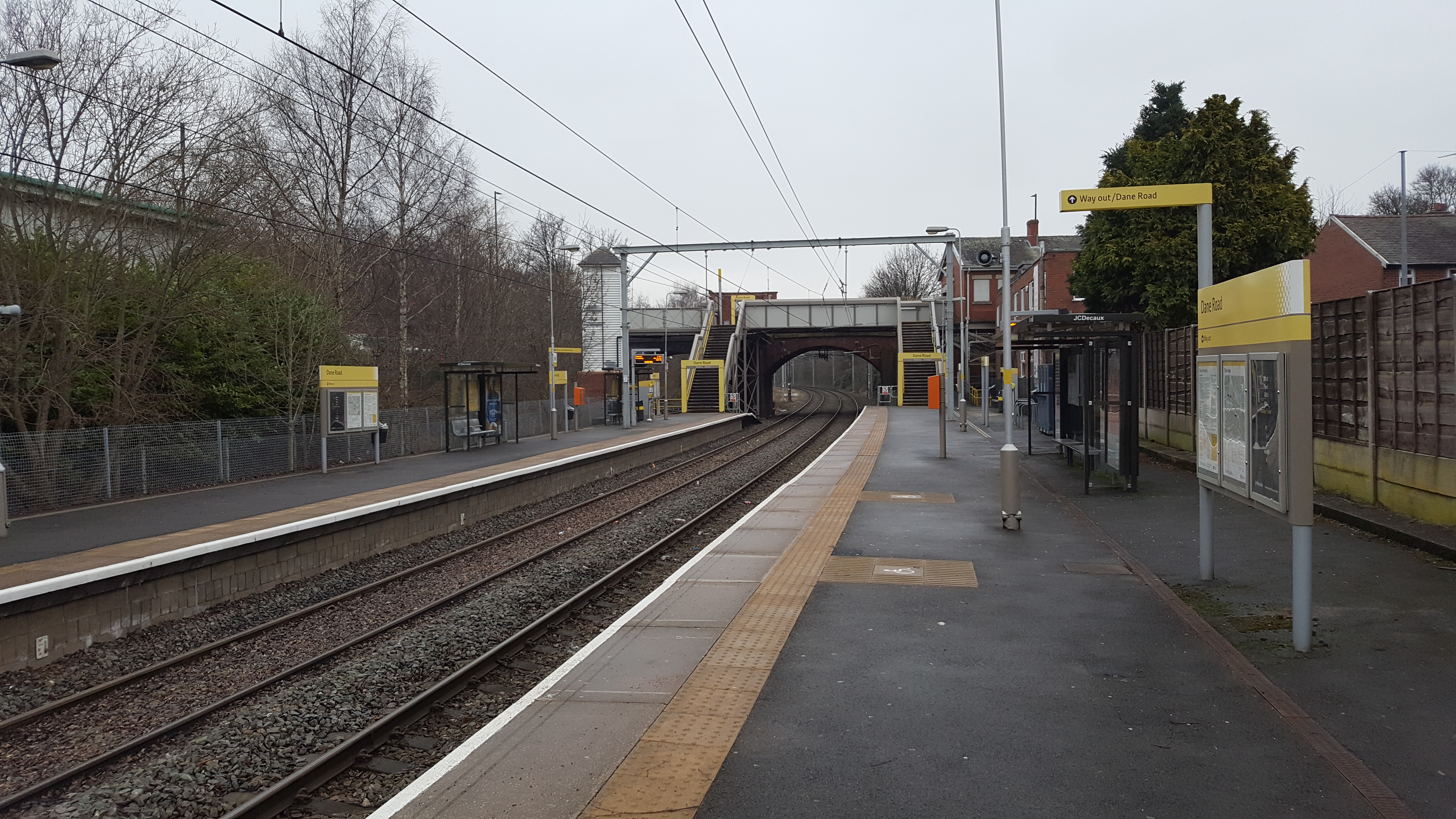 A photo of Dane Road.